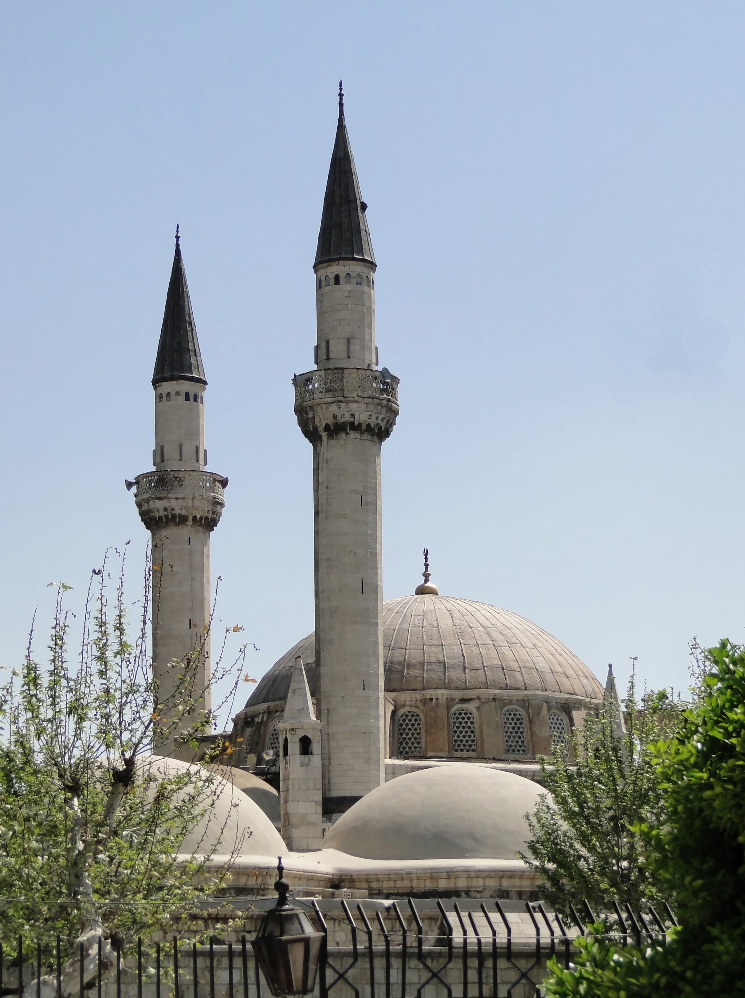 Takiyya as-Süleimaniyya Mosque, Damascus, Syria